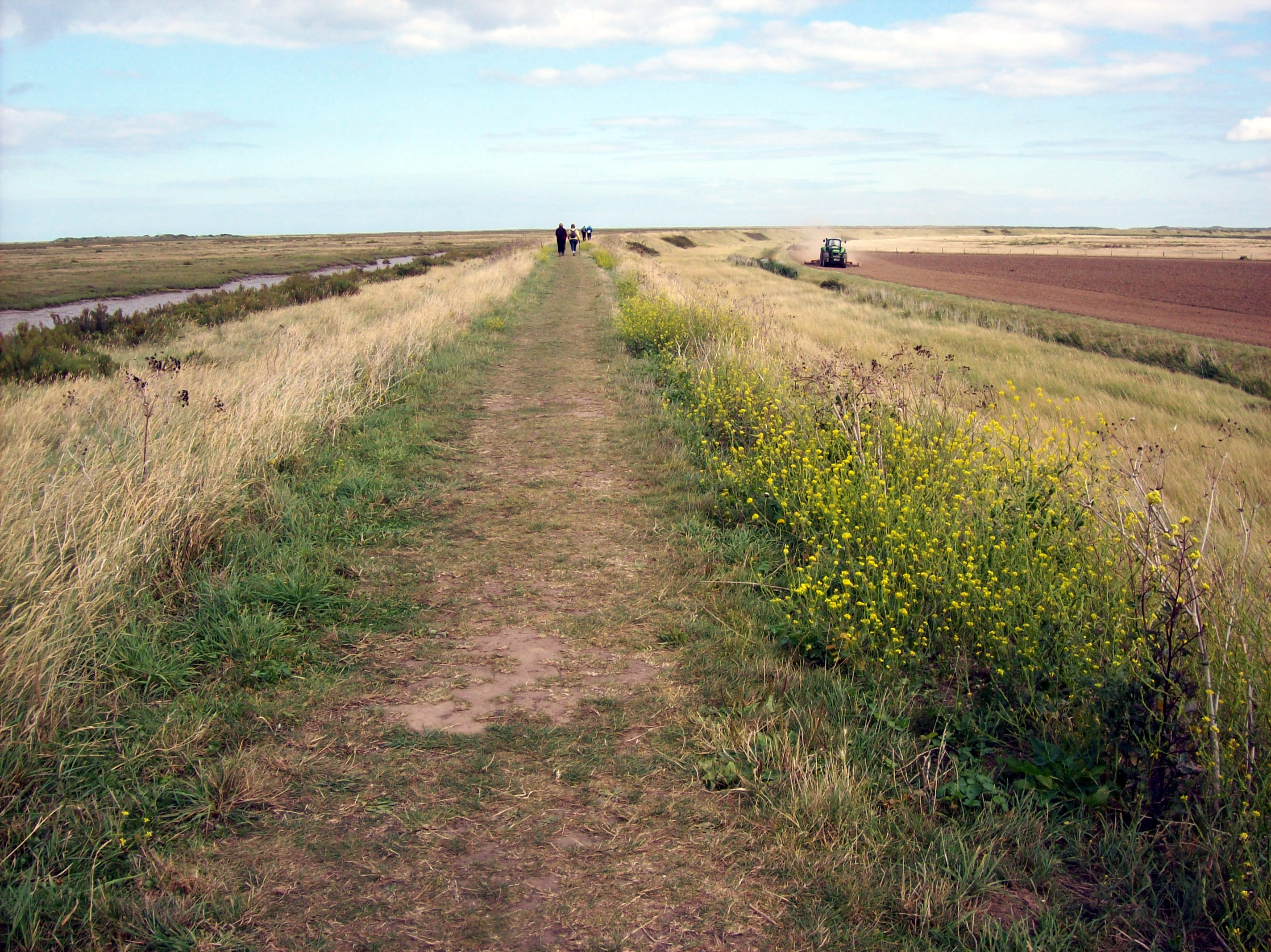 The sea wall Blakeney National Nature Reserve, Norfolk, England. On the left are thousands of acres of salt and mud flats and a protected wildlife habitat. On the right of the wall the land has been reclaimed for farming. Norfolk Coast Path goes along to top of this portion of the wall.